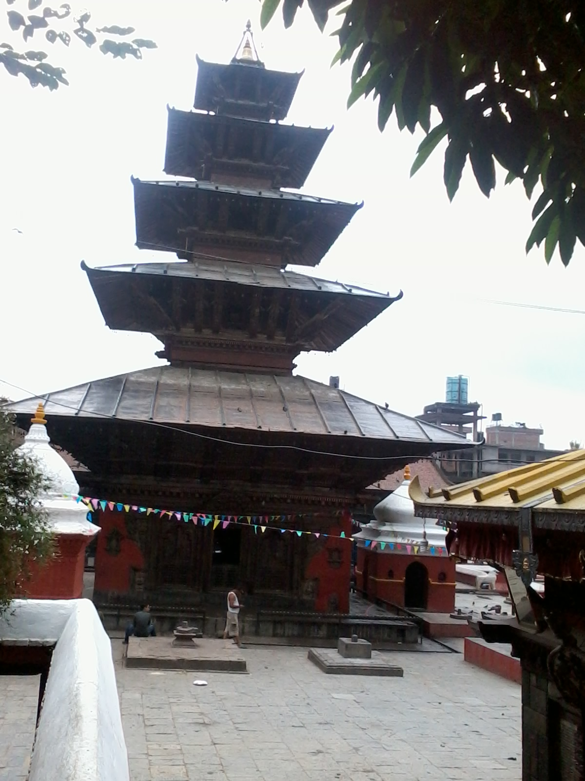 patans old temple. it is made 500 years ago by king of patan